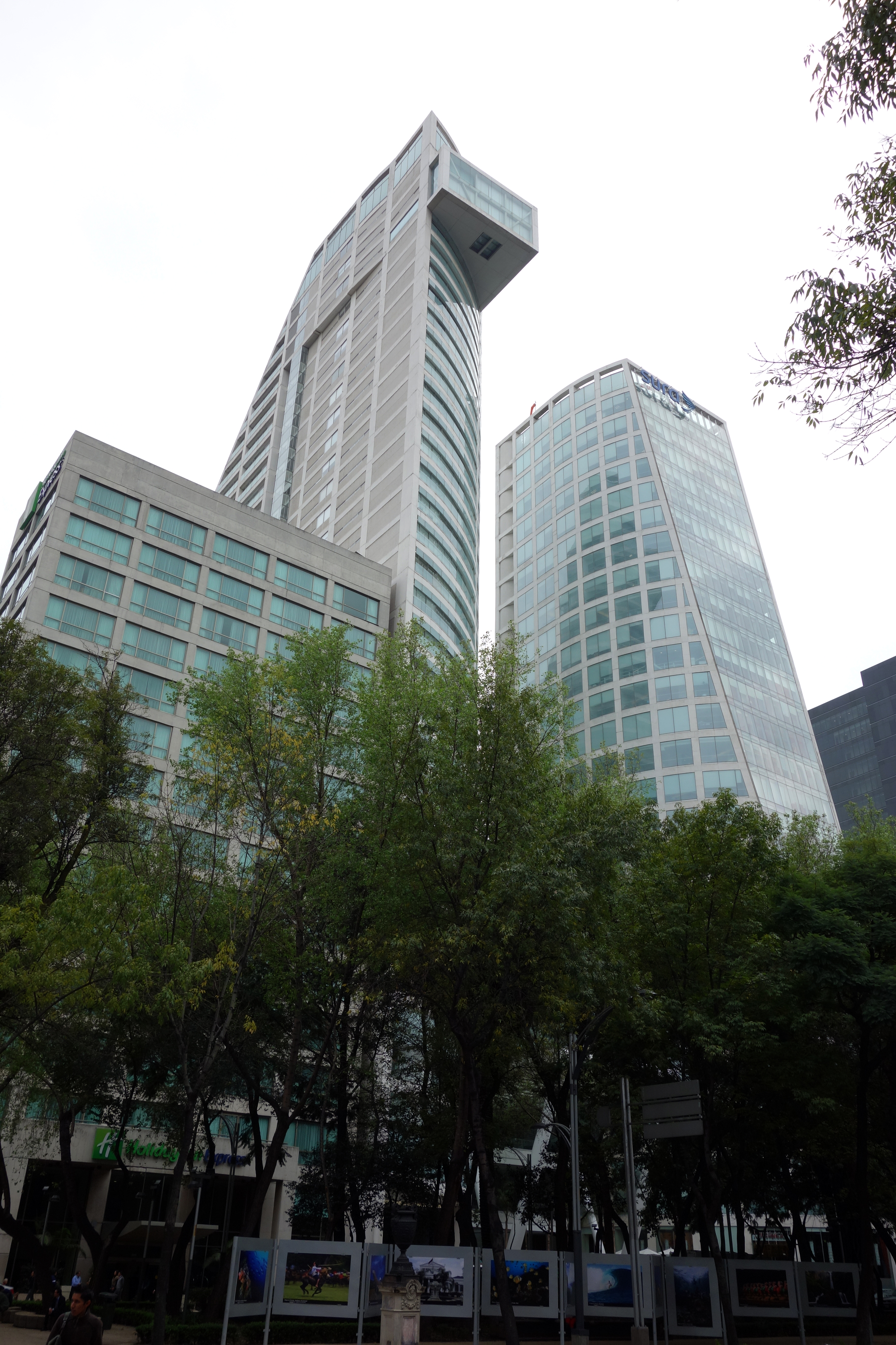 Reforma 222 in Mexico City